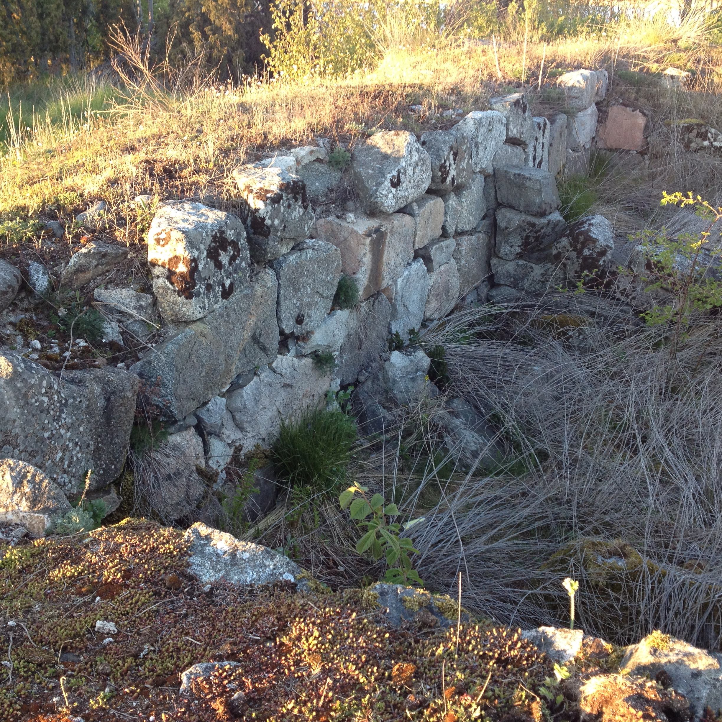 Ruins of hill fort at Gröneborg in commune of Enköping, Sweden.